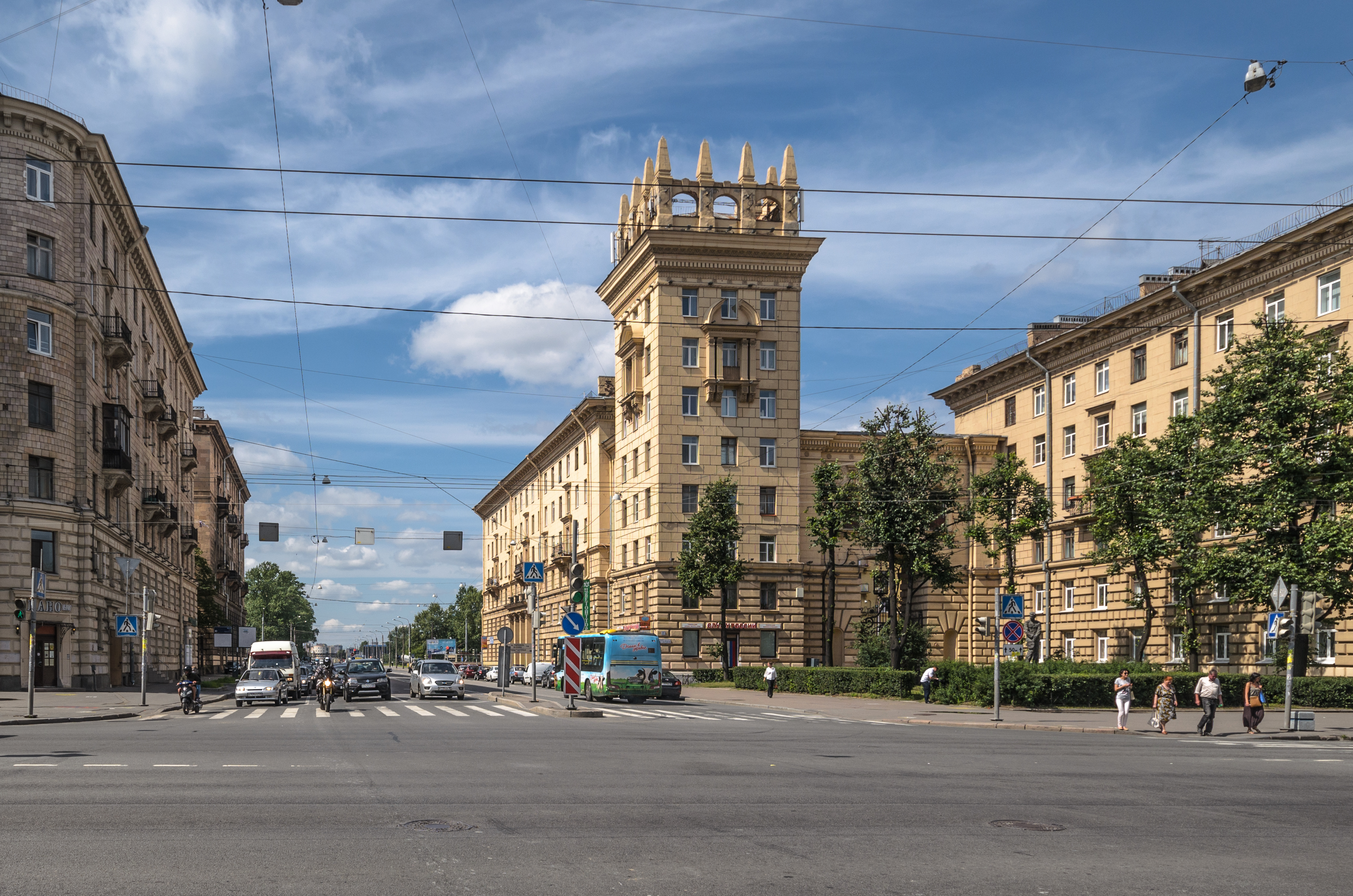 Stachek Avenue in Saint Petersburg